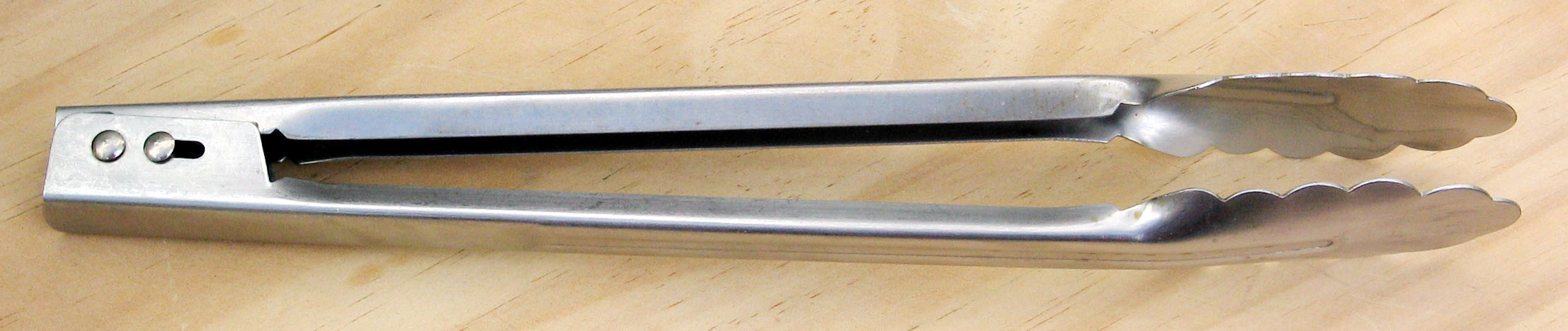 Pair of food tongs.